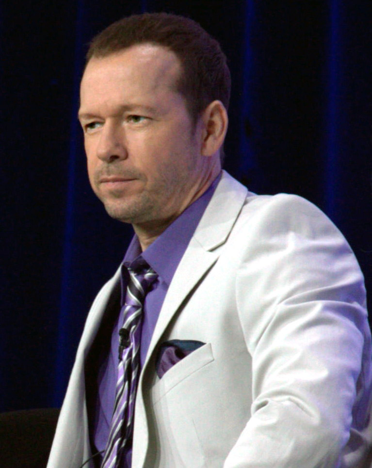 Cropped version of Blue Bloods cast TCA 2010.jpg